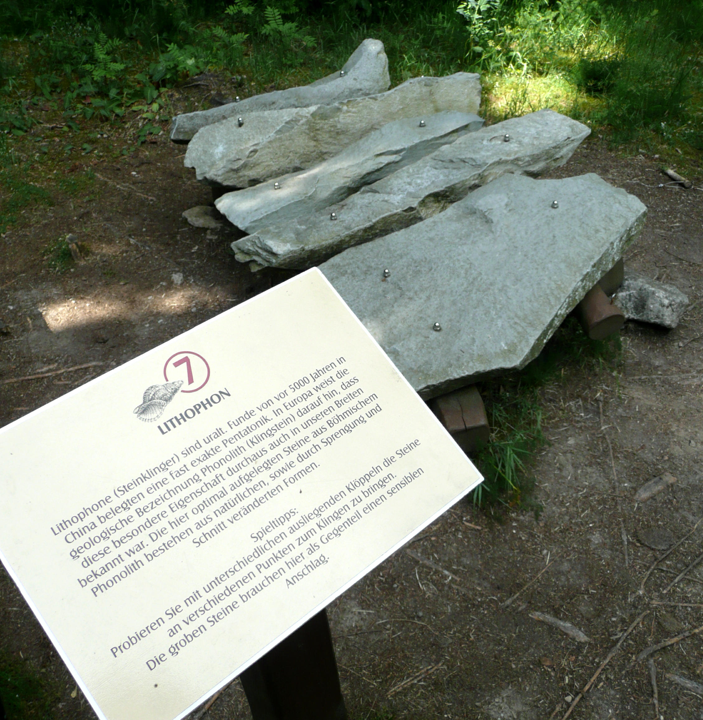 This image shows a Lithophone made of Phonolite seen in the botanic garden in Schellerhau Saxony, Germany.